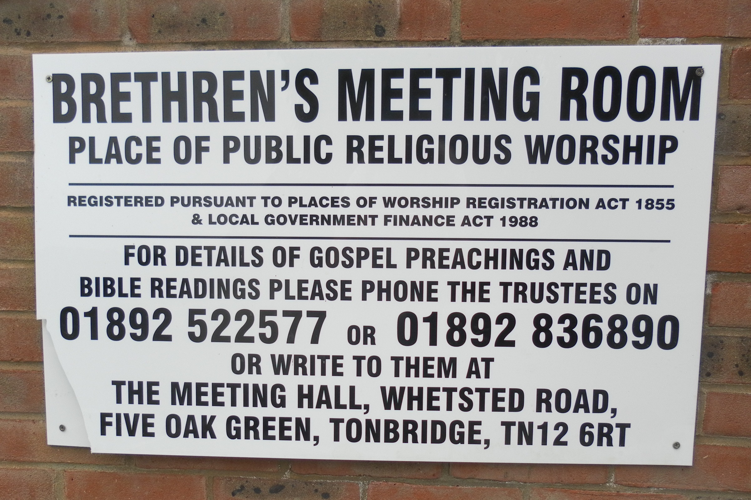 A sign outside the Five Oak Green Meeting Room (Brethren place of worship), Whetsted Road, Five Oak Green, Kent, England. This is in the standard style for Brethren meeting rooms, stating that the building is a registered place of worship and giving contact details.